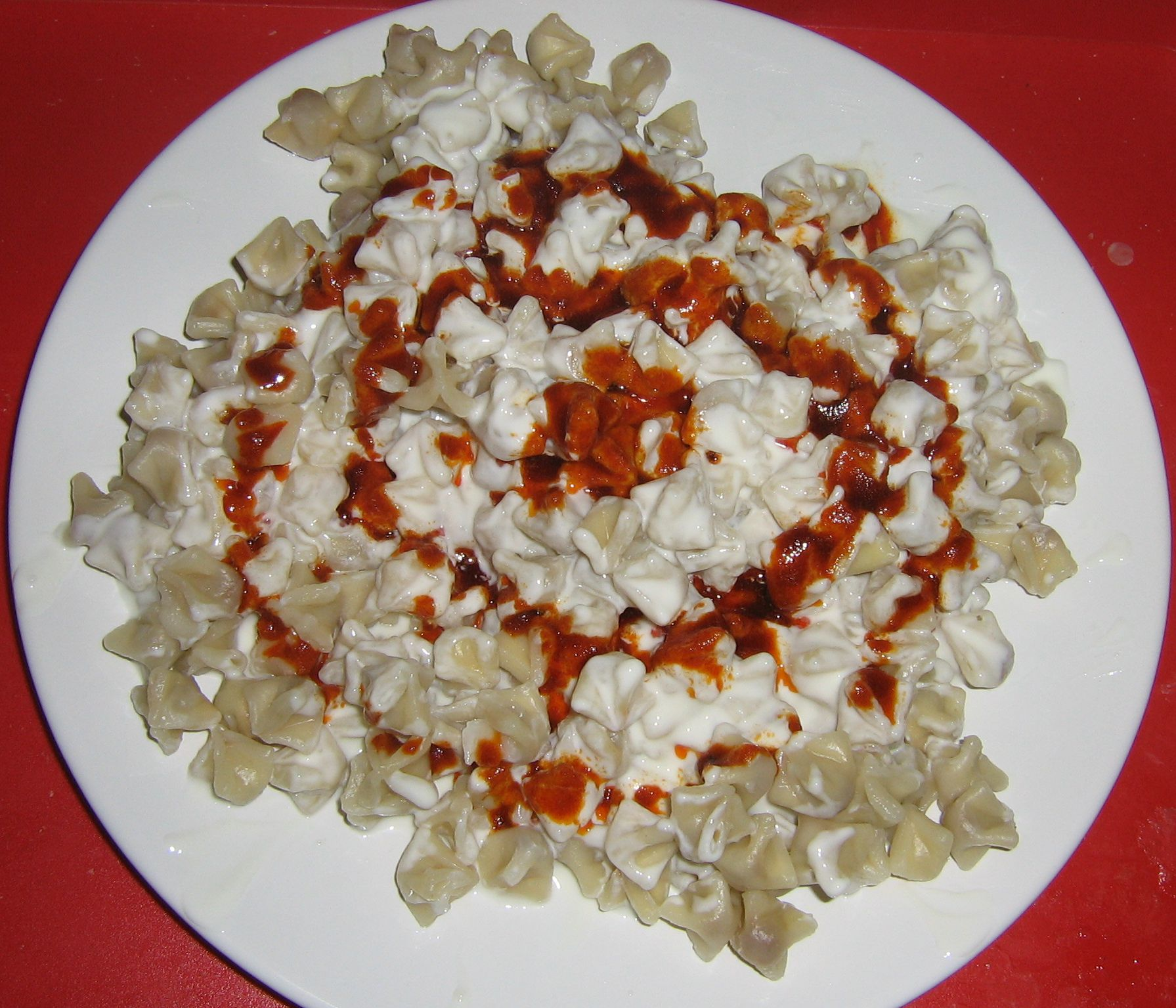 Turkish Mantı with yogurt and garlic and spiced with red pepper powder and melted butter. Cooked by me.